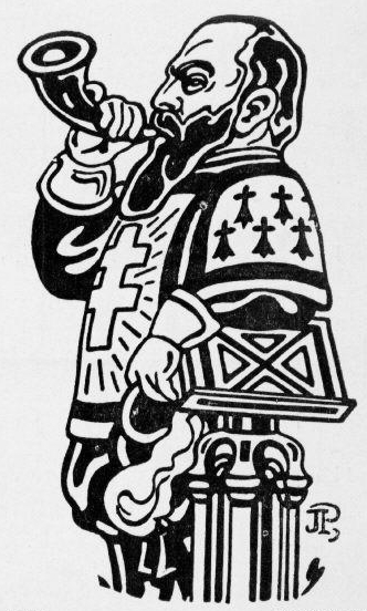 French composer Guy Ropartz (1864-1955) by Jac Pohier